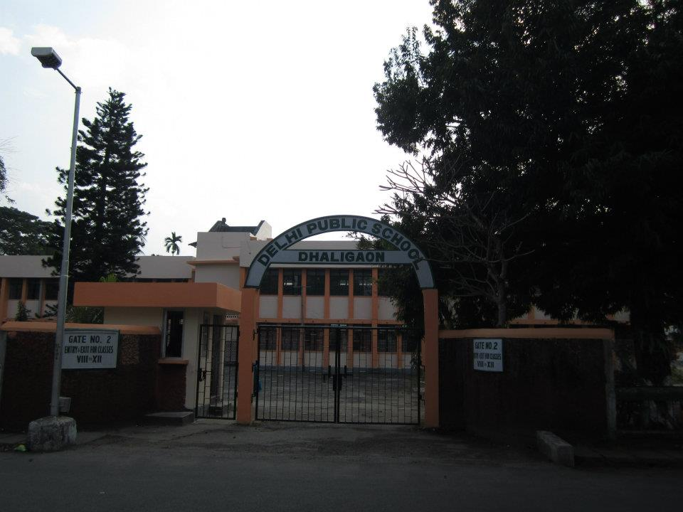 school